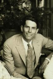 Donald Bertrand Tresidder In front of Ahwahnee Hotel (during visit of Herbert Hoover)